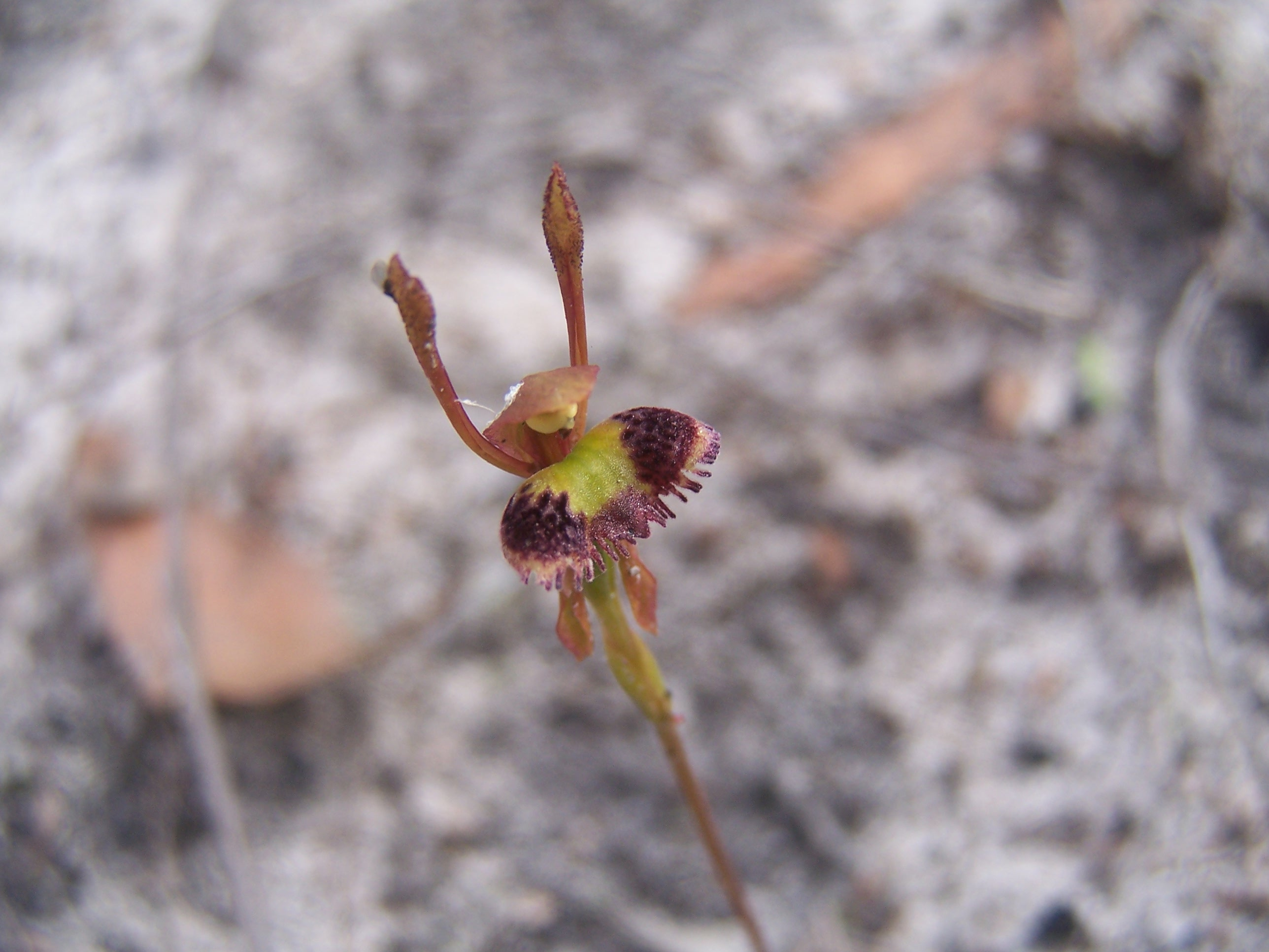 Australian orchid, the Fringed Hare Orchid (Leporella fimbriata)